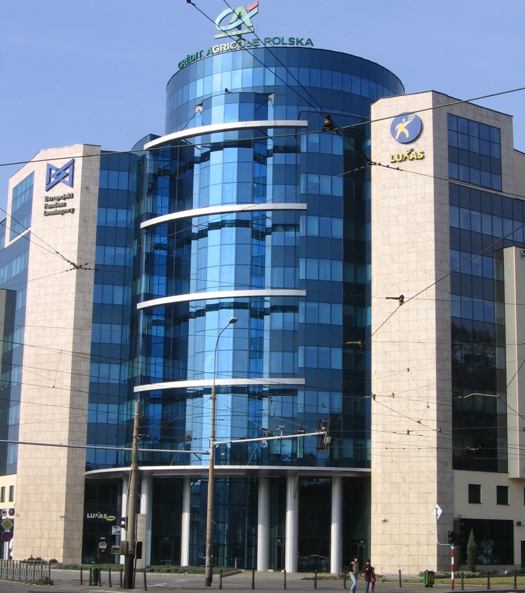 Wrocław, Poland: EFL building (European Leasing Fund)